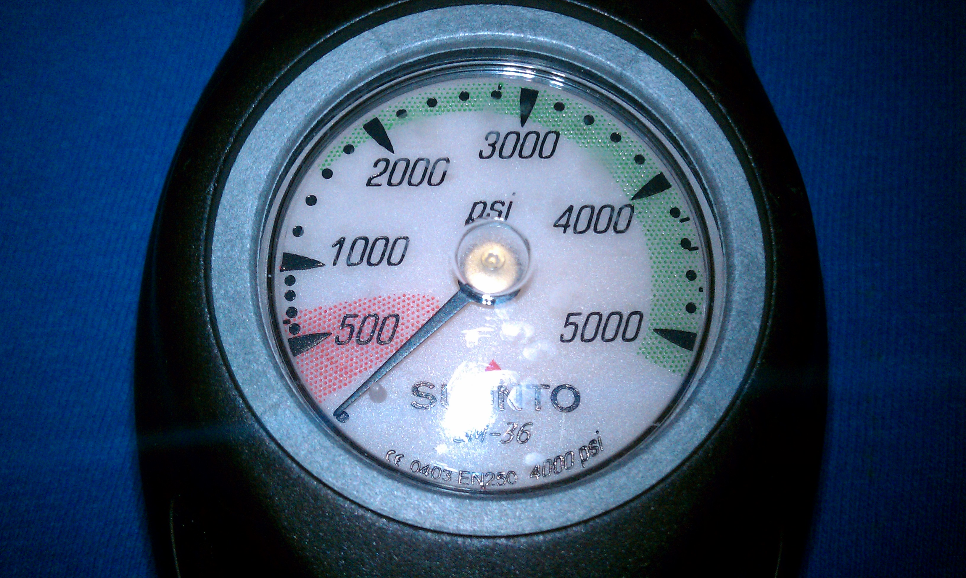 Shunto pressure gauge